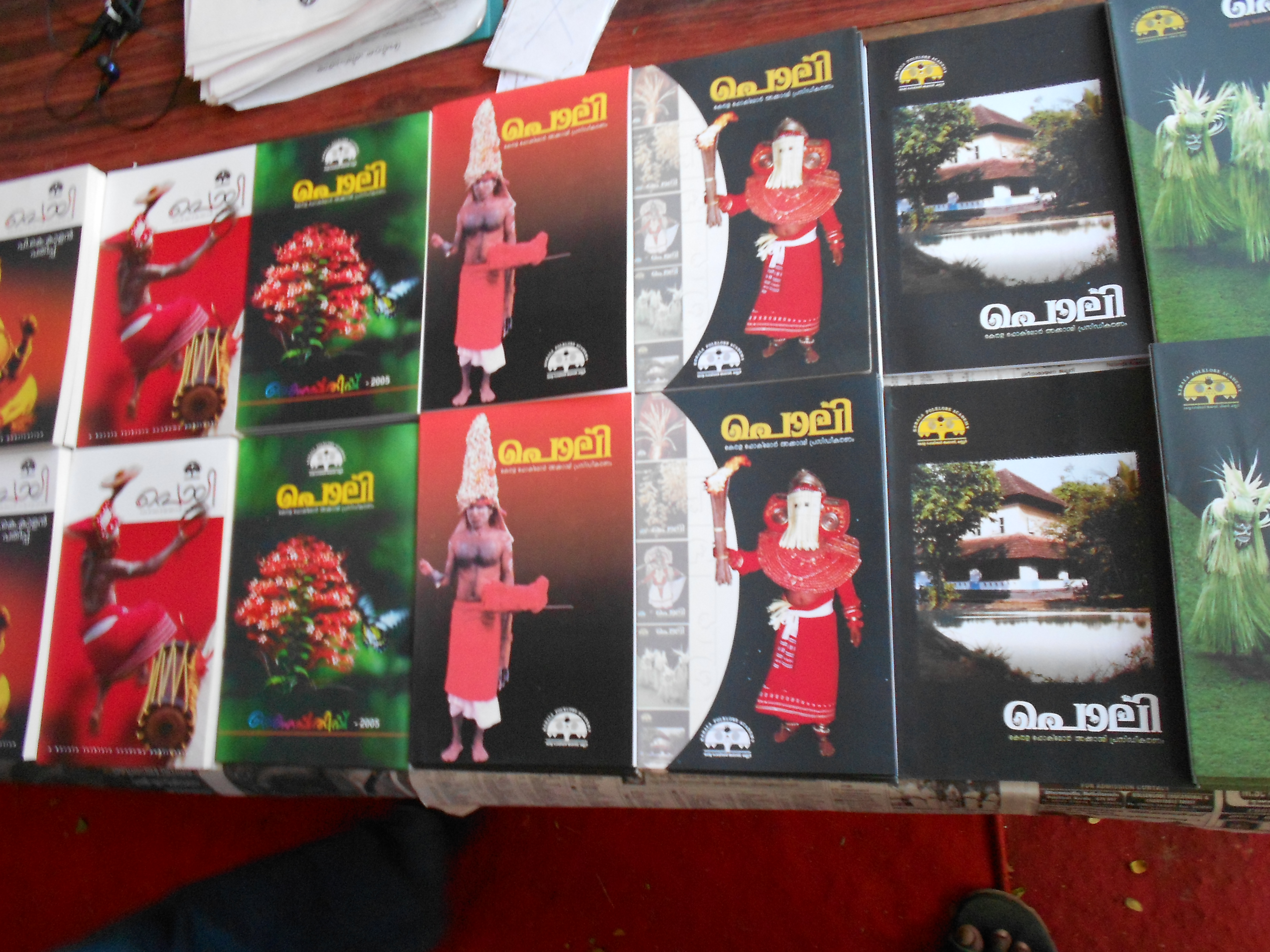 folklore academy publication,poli